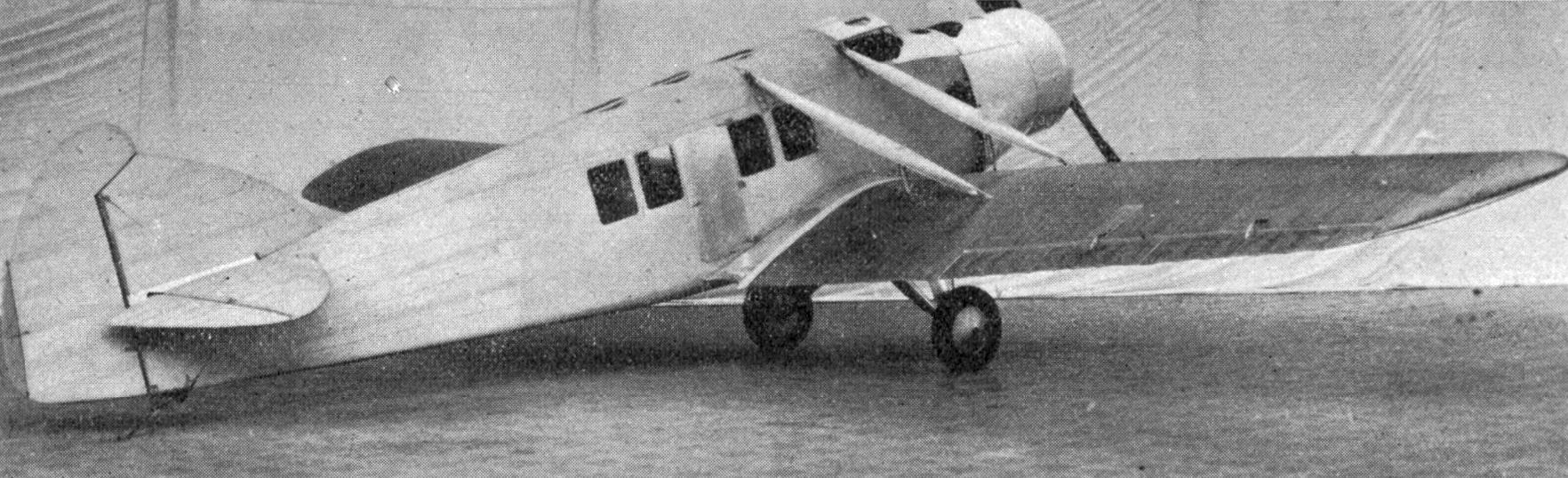 Blériot 111/2 bis photo from L'Aérophile December,1929